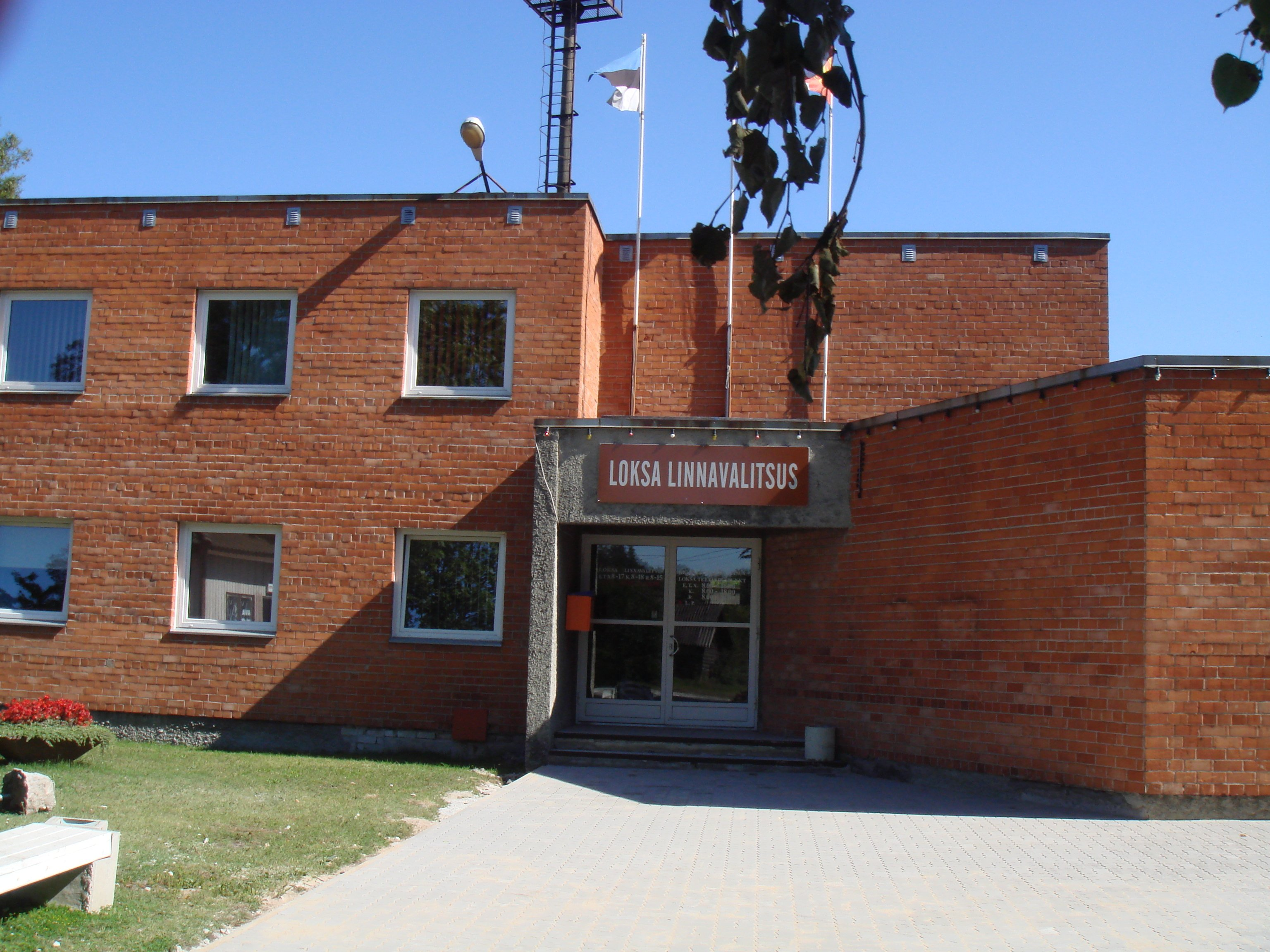 The building of Loksa City Administration.